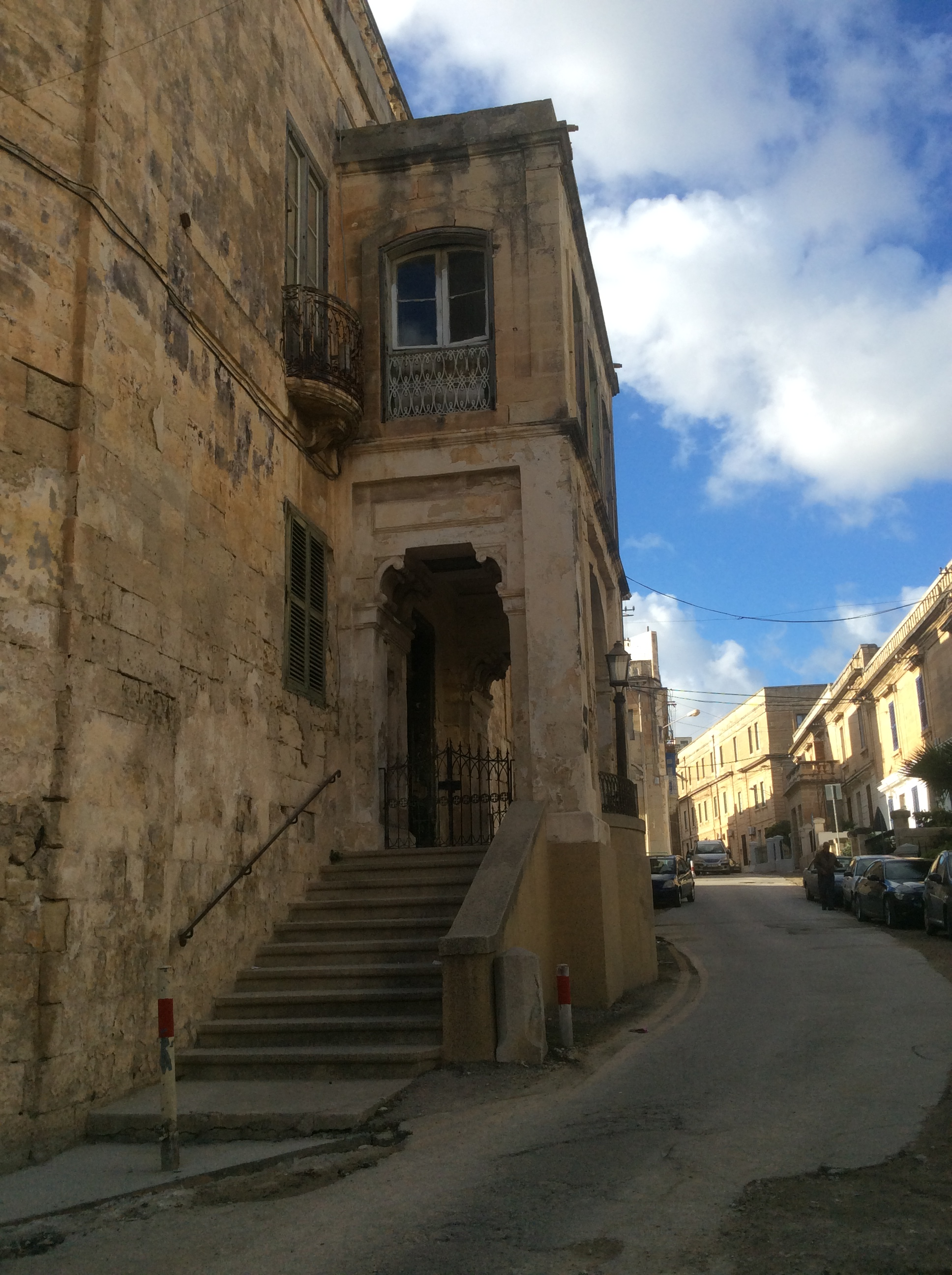 Villa Guardamangia in Pietà